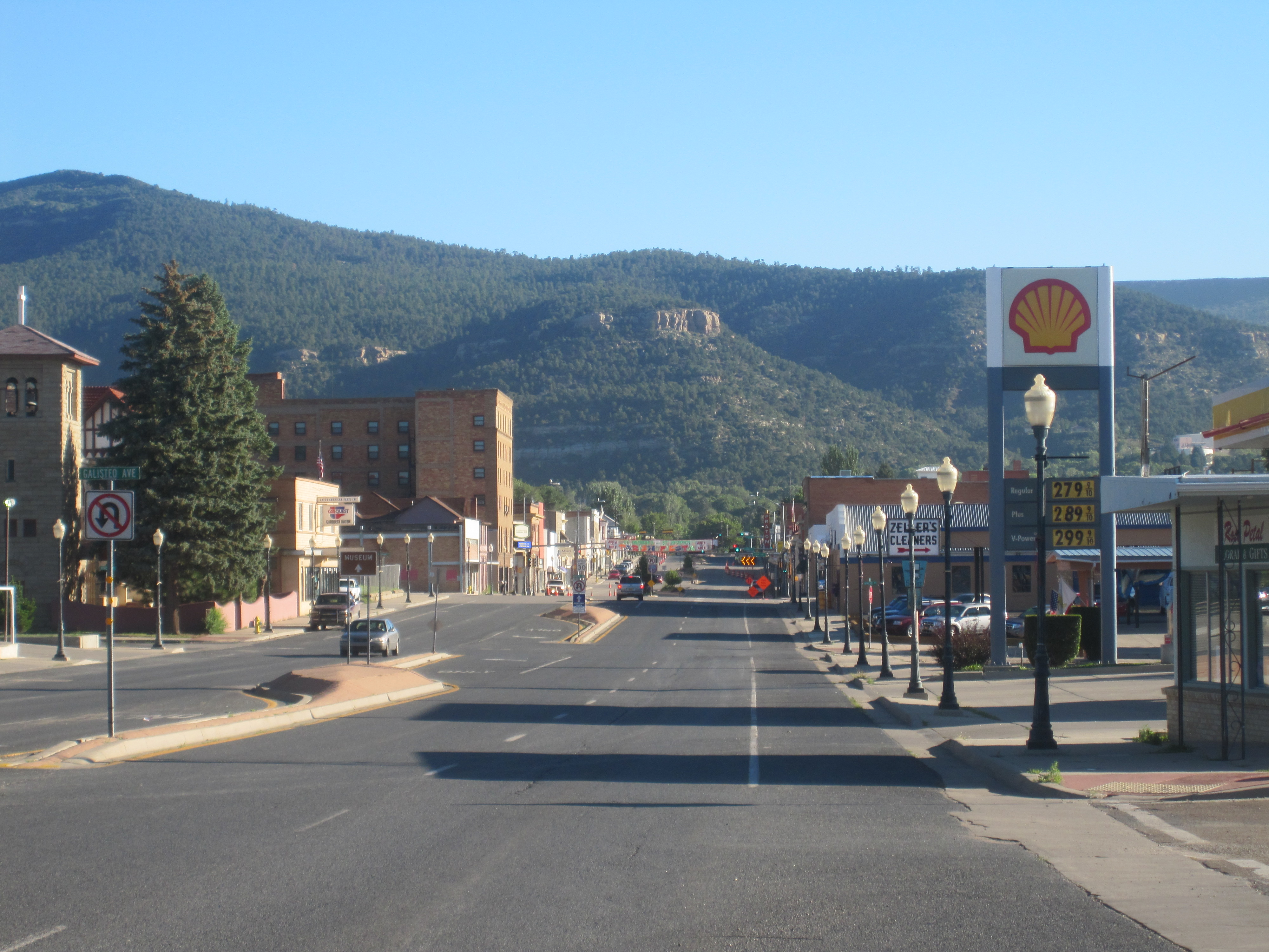 I took photo with Canon camera in Raton, NM.